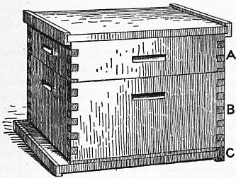 Langstroth Hive. (Redrawn from the A B C of Bee-Culture, published by the A. I. Root Co., Medina, Ohio, U.S.A.) Illustration from 1911 Encyclopædia Britannica, article Bee